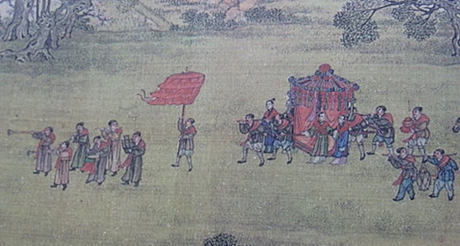 清明上河图/清明上河圖/Qing Ming Shang He Tu (Along the River During Qingming Festival), reproduction by Qing dynasty painters, original by Zhang Zeduan